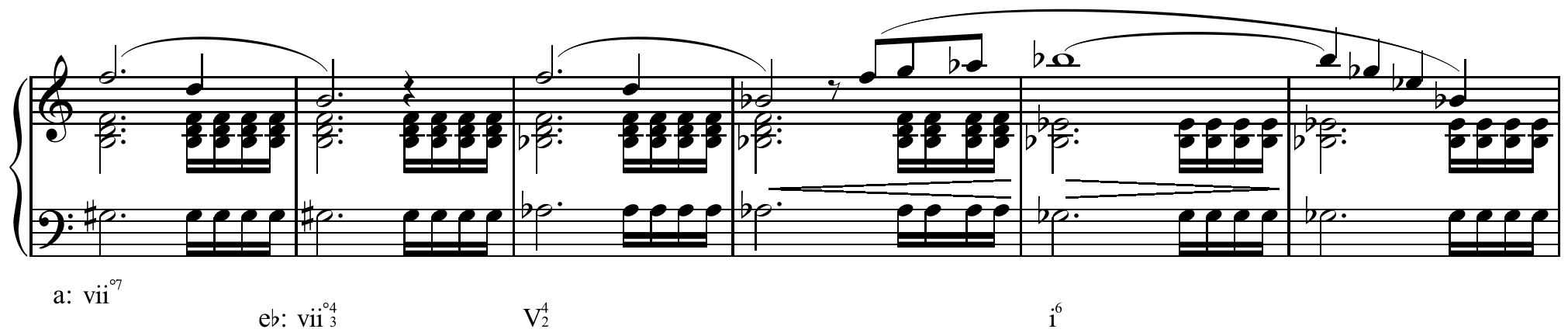 Schubert - op. 29, D.804, I, mm.144-49. Enharmonic modulation using a common viio7, enharmonic in two keys.